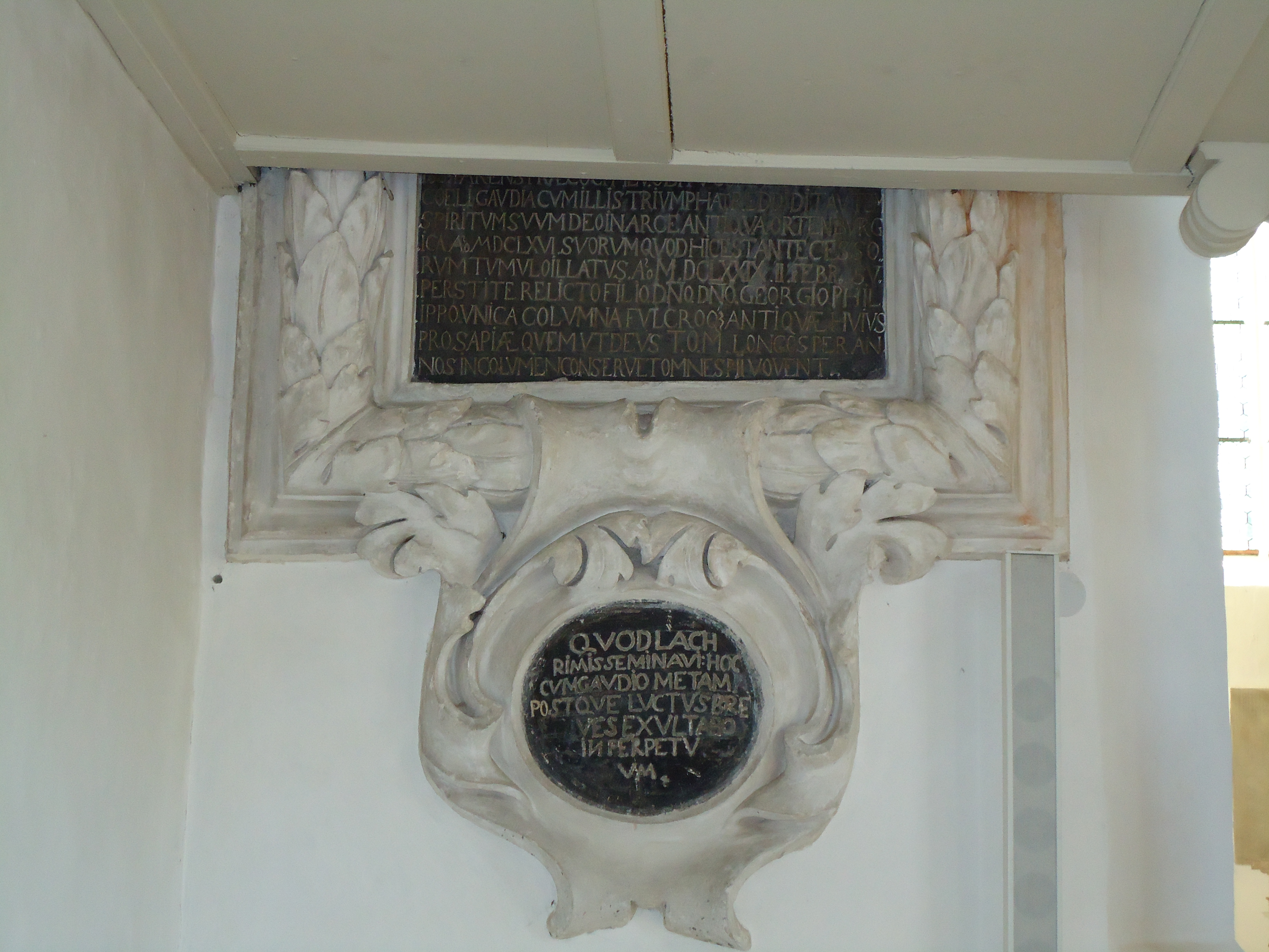 Part of the Epitaph for Count Georg Reinhard von Ortenburg